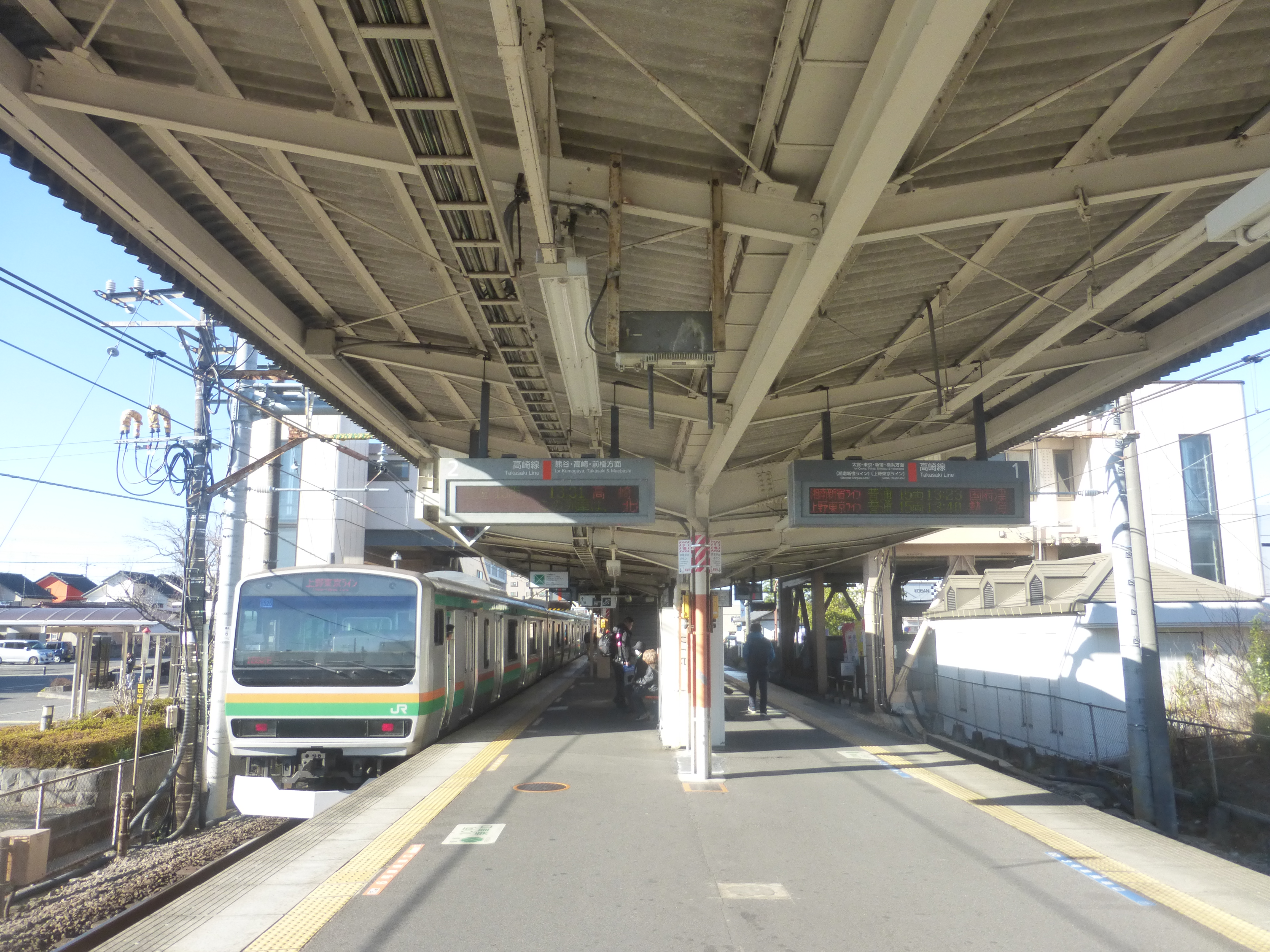 Gyōda Station platforms (行田駅のホーム) Panasonic Lumix DMC-TZ35